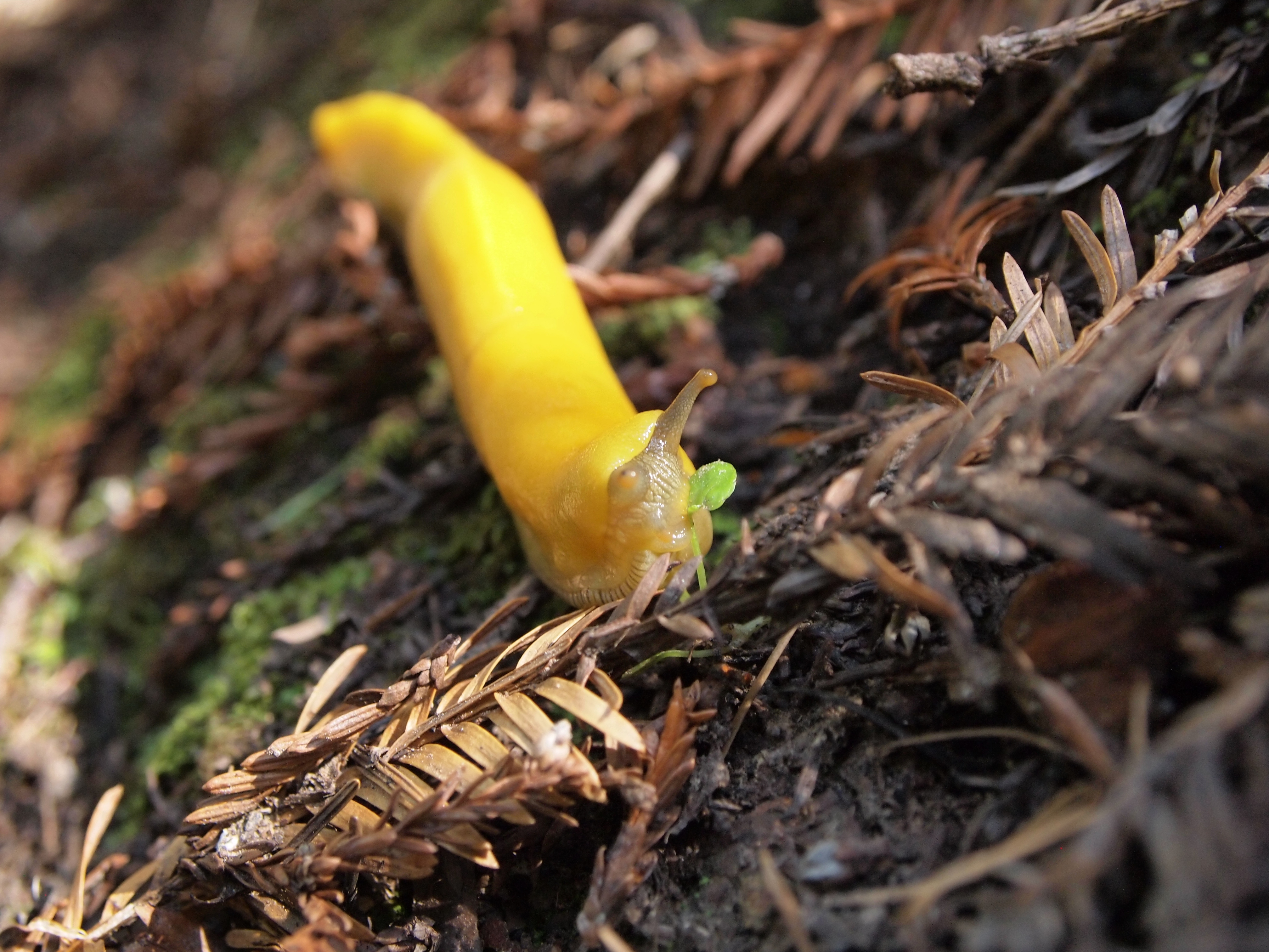 A banana slug eating a small plant in Big Basin State Park, California, United States of America